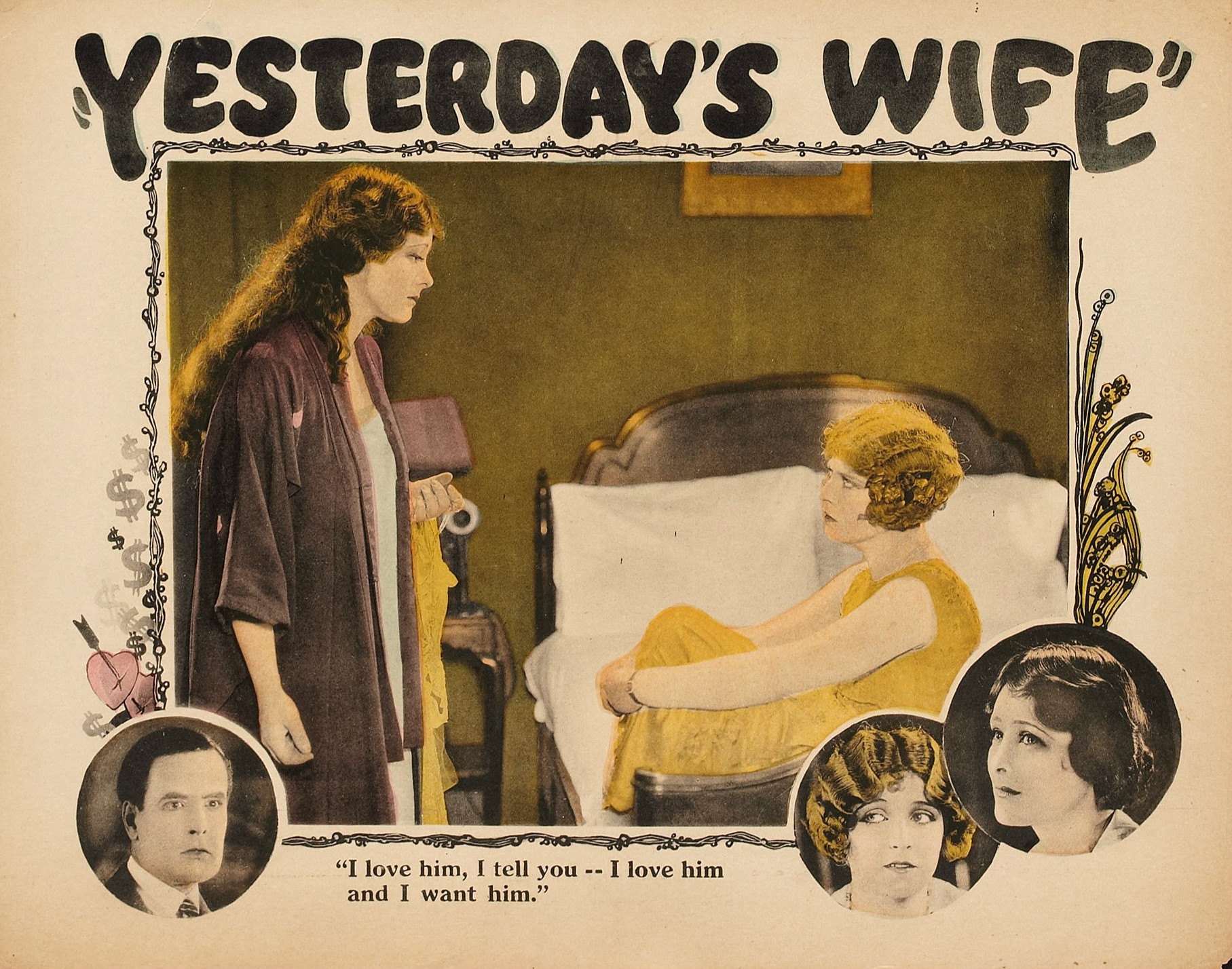 Lobby card for the American romantic comedy drama film Yesterday's Wife (1923).